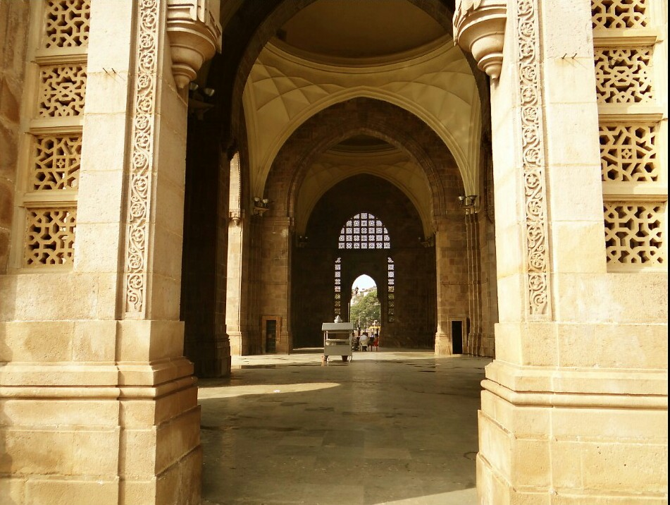 Gateway Of India - Inside the Wonder